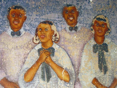 Detail of 'Recreation in Harlem', a mural executed at Harlem Hospital Center in New York City in 1936 by Georgette Seabrooke and restored in 2012.